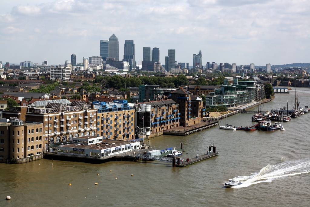 HMS President Pier and Canary Wharf